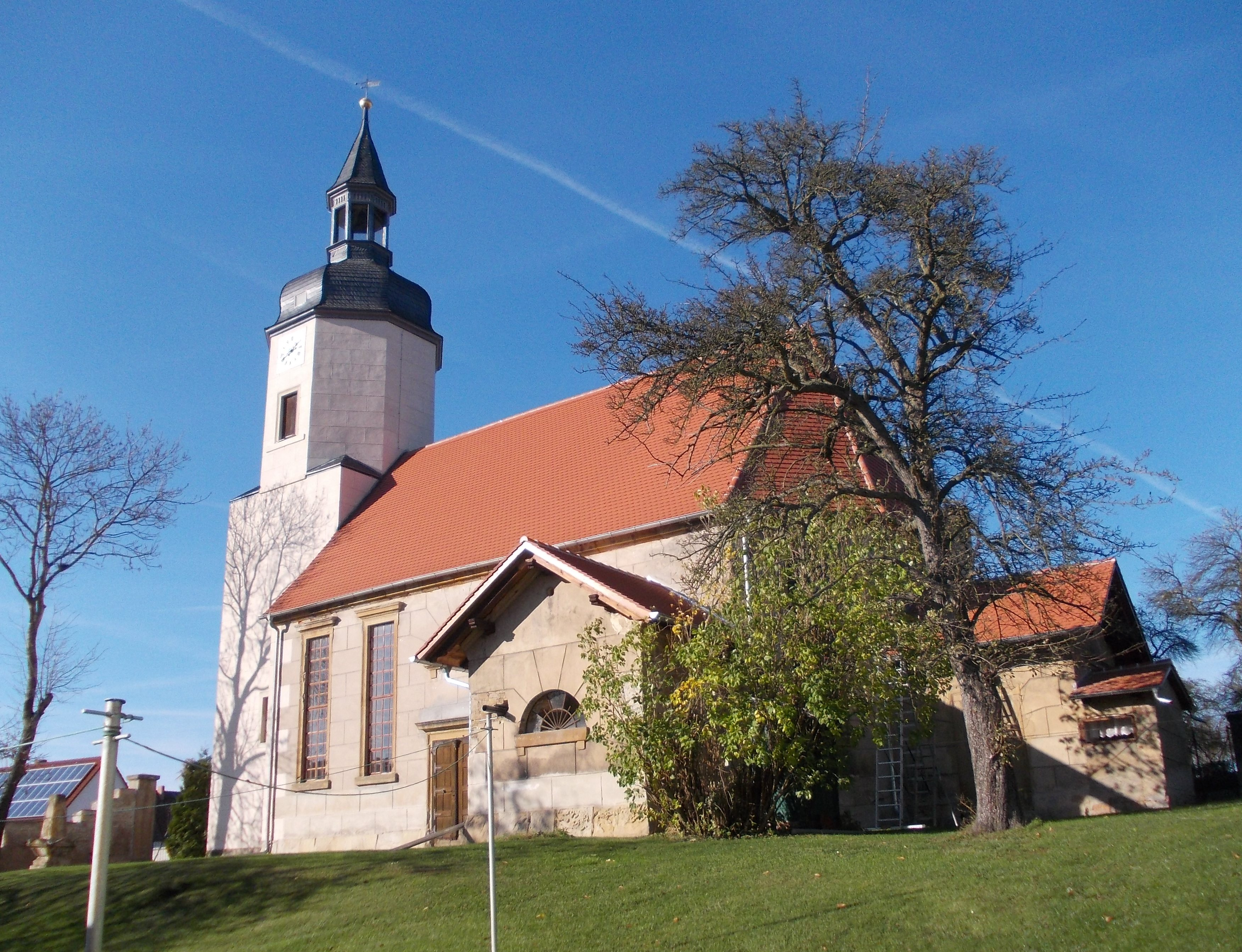 Hollsteitz church (Kretzschau, district: Burgenlandkreis, Saxony-Anhalt)